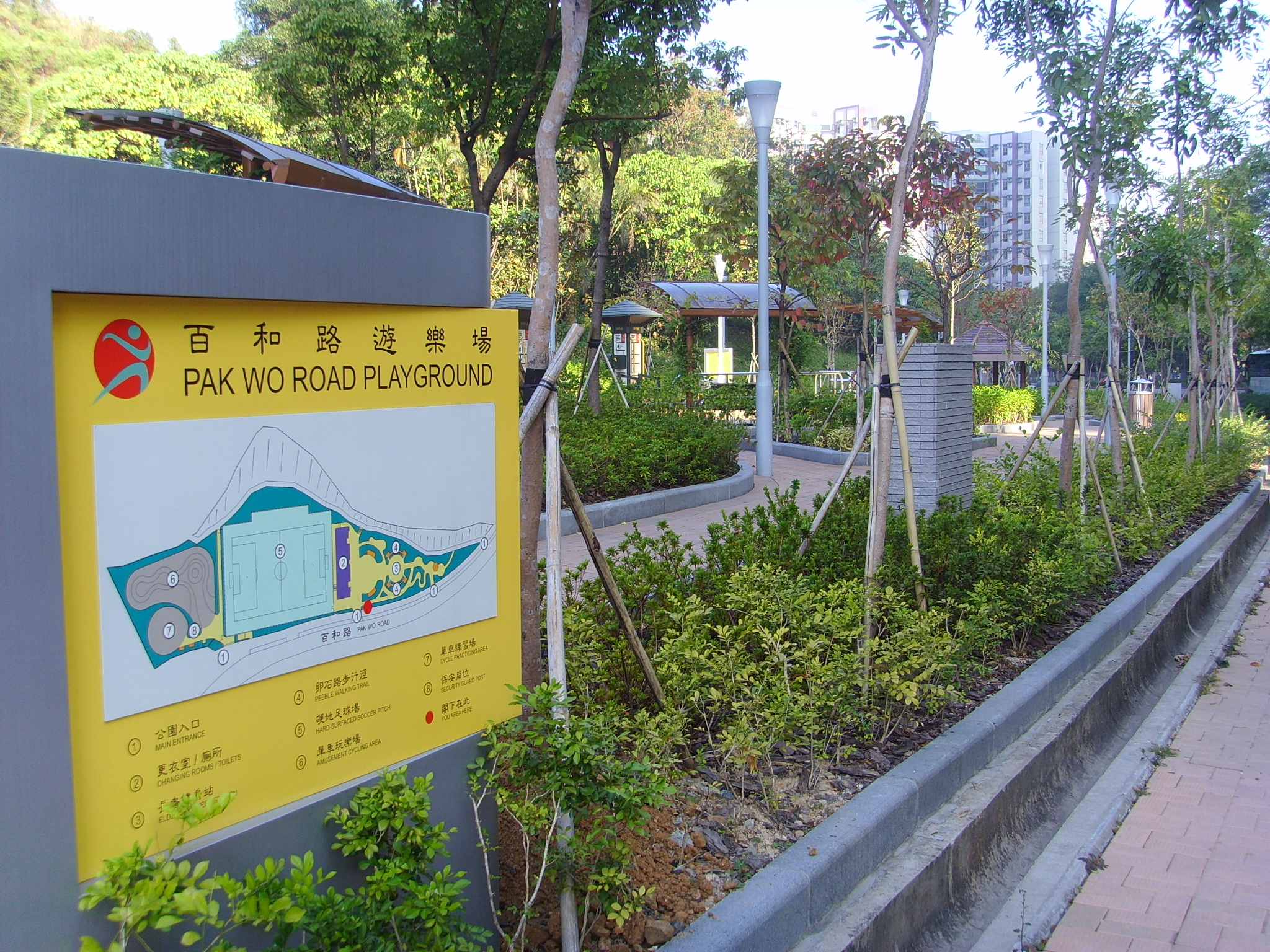 Pak Wo Road Playground in Fanling, Hong Kong